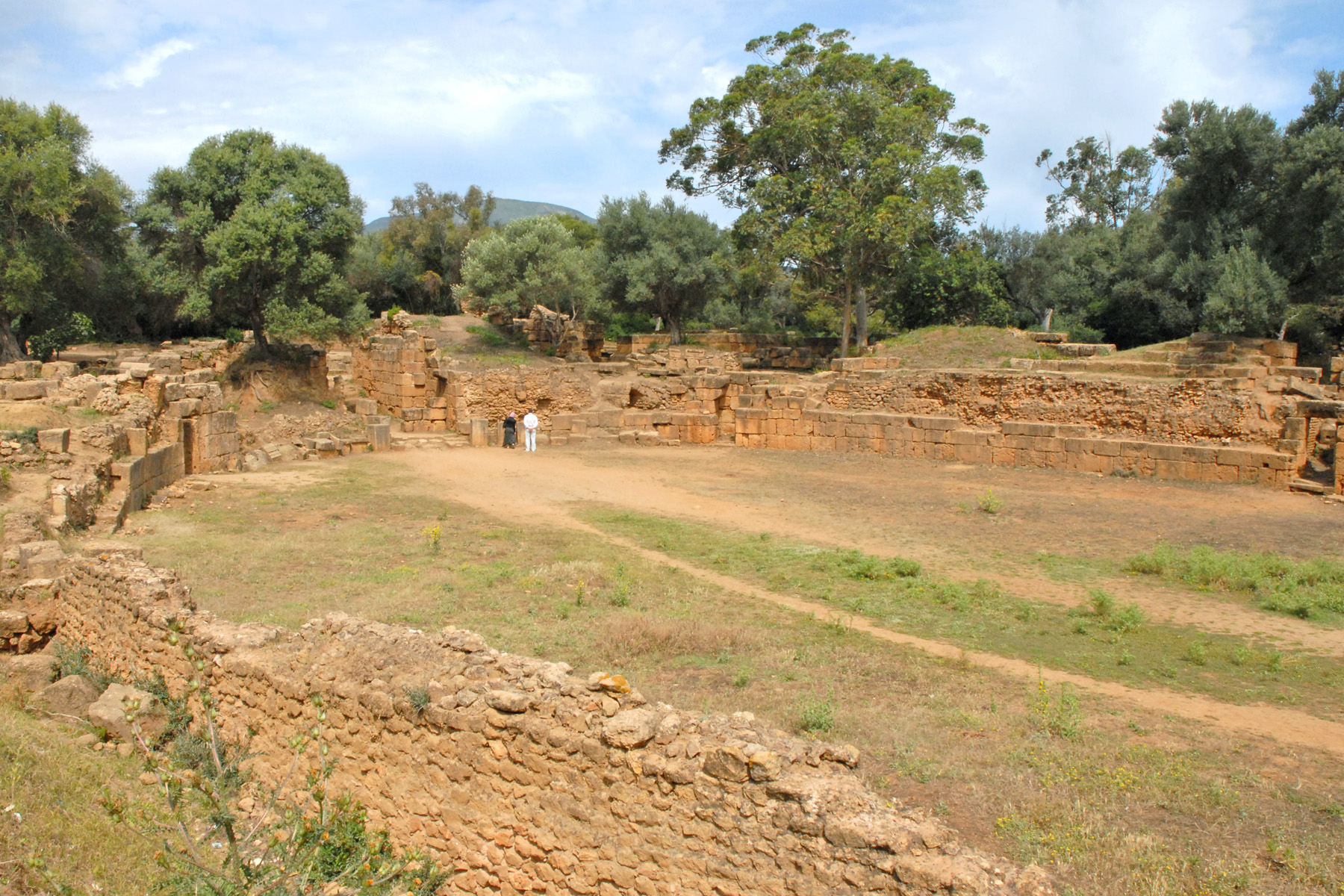 Vestiges of the Roman amphitheatre of Tipaza (Algeria).